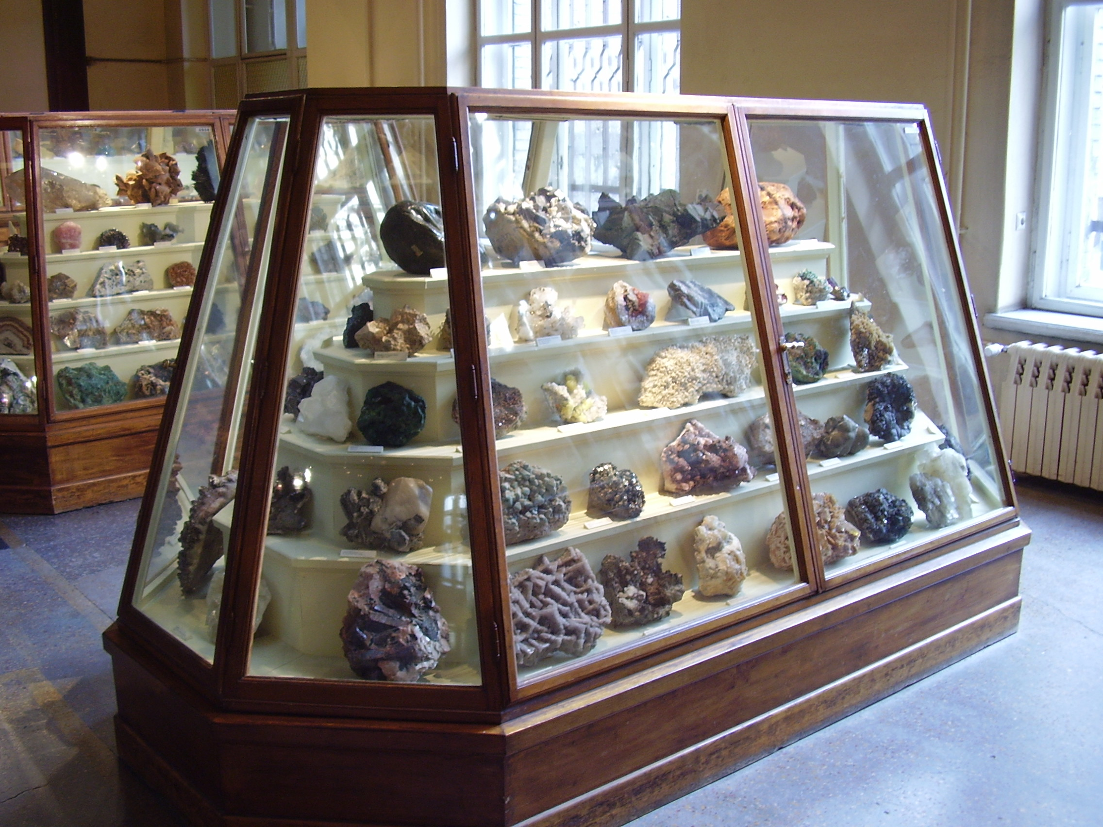 Berlin Museum of Natural History